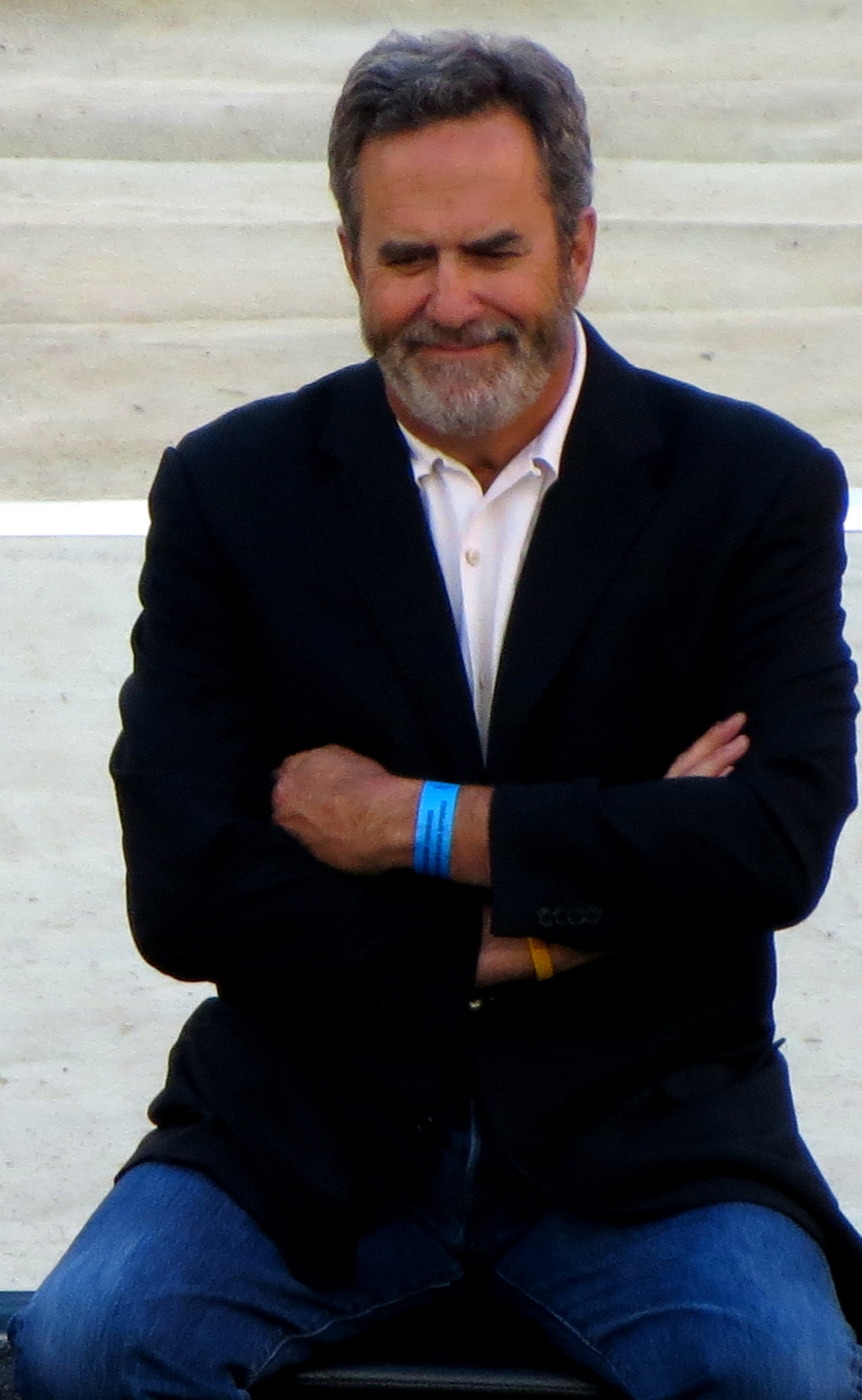 Dan Fouts at Celebration of Life for Junior Seau, May 12, 2012.